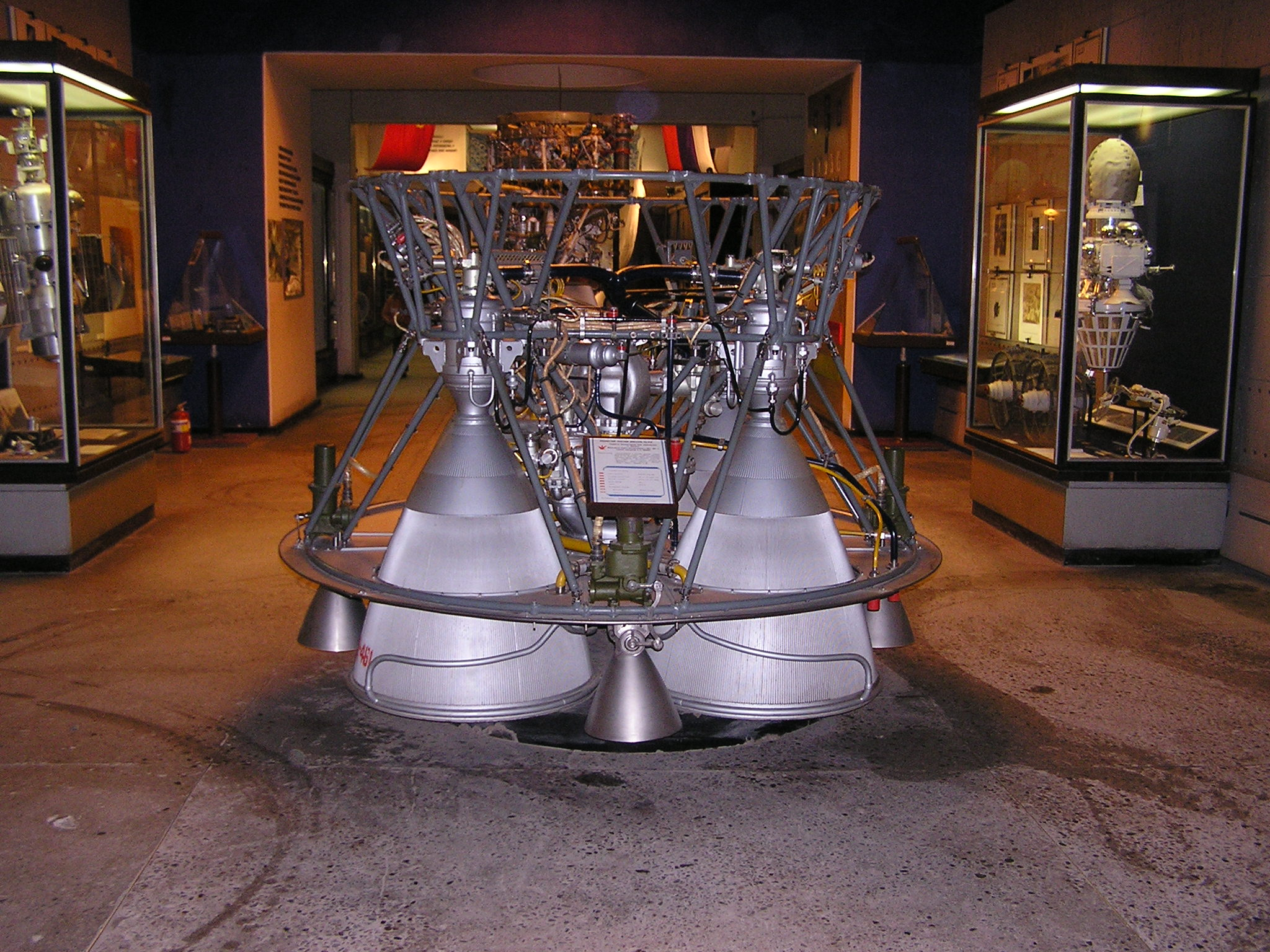 Museum of Space and Missile Technology (Saint Petersburg). RD-0110 rocket engine for Block I rocket stage (Molniya, Soyuz, Soyuz-2.1a LVs)